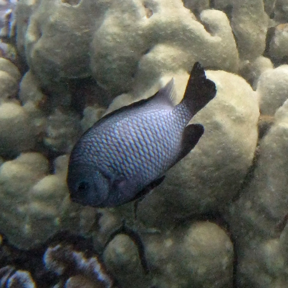 A Hawaiian Dascyllus (Dascyllus albisella), off Hilo, Hawaii.